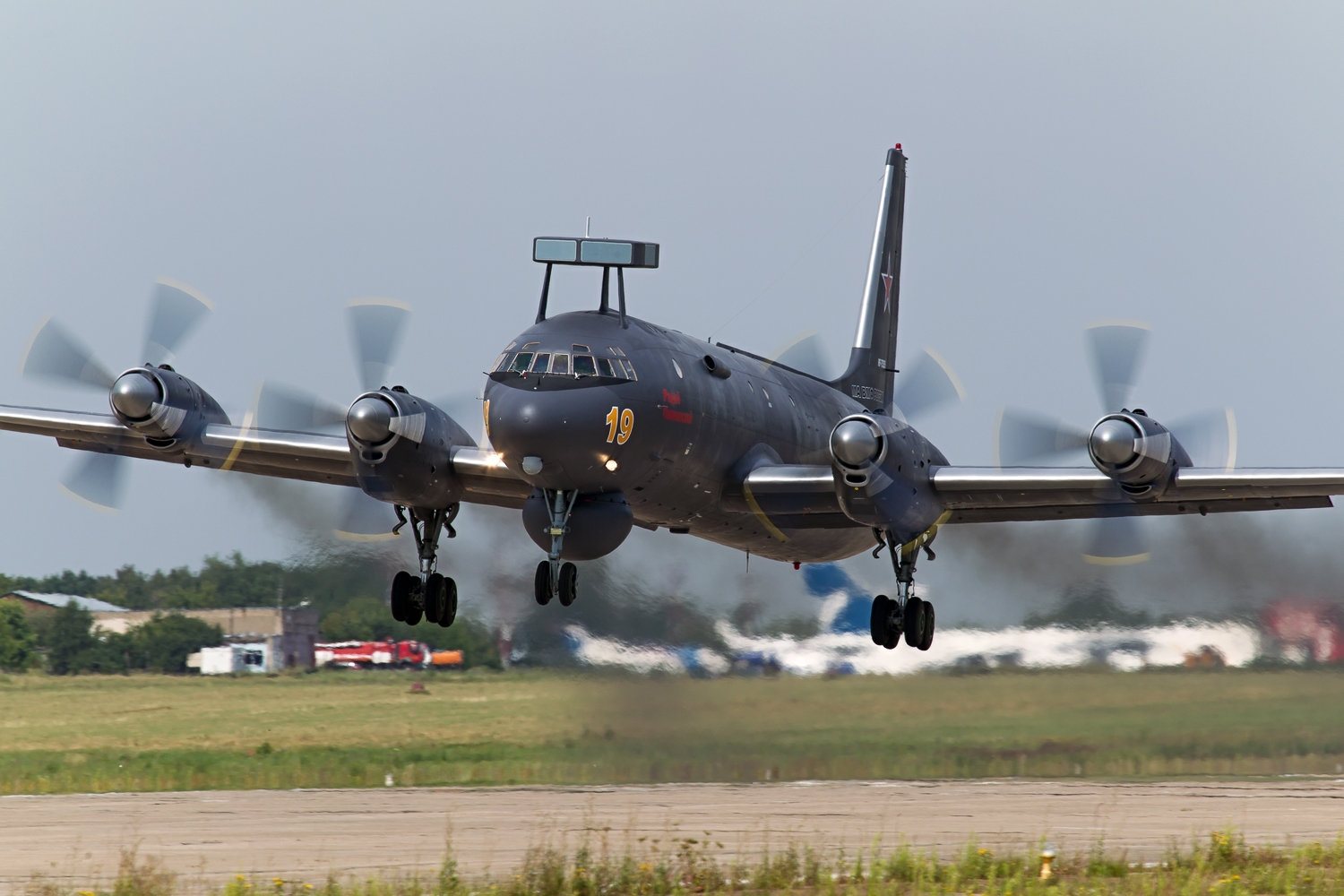 Russian Navy Ilyushin Il-38N taking off from Zhukovsky